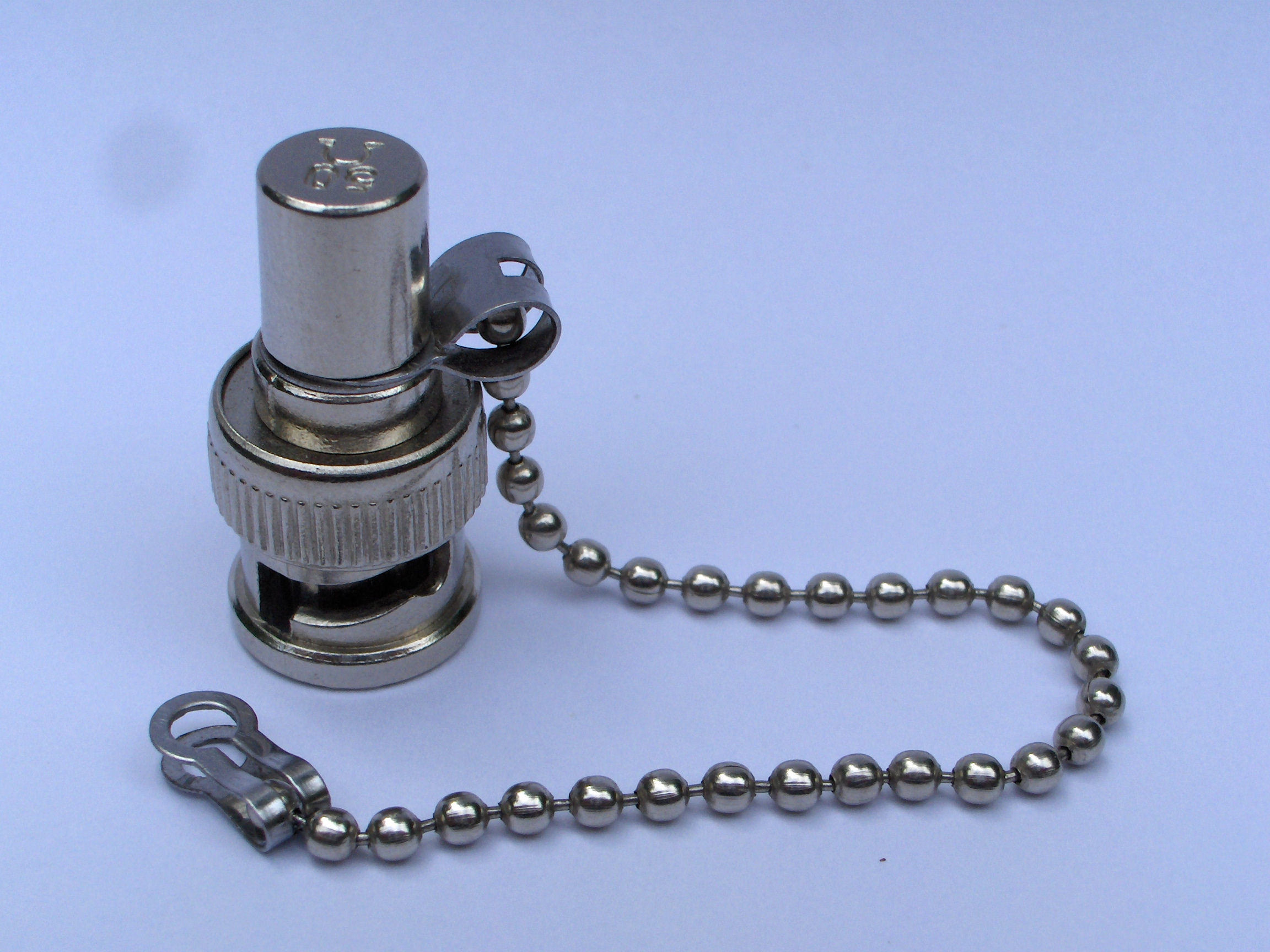 Terminator for BNC Ethernet (10BASE2).